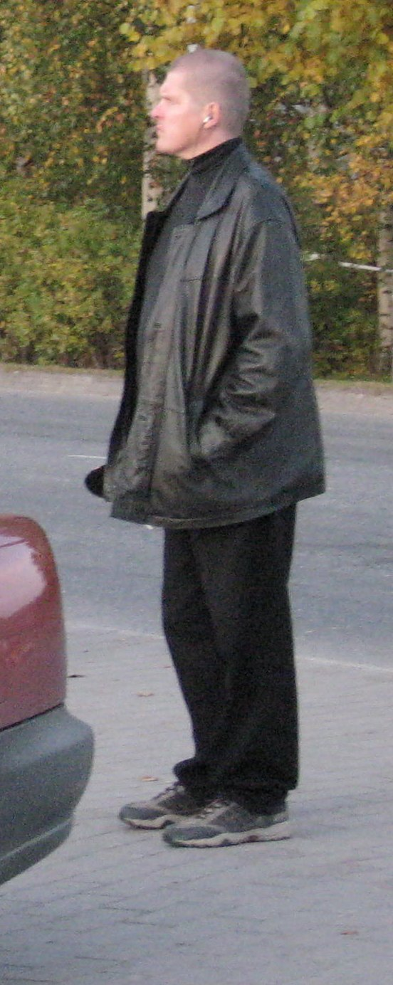 Finnish television channel MTV3's reporter Jarkko Sipilä in front of Kauhajoen koti- ja laitostalousoppilaitos school (in Kauhajoki, Finland) one day after shooting incident.